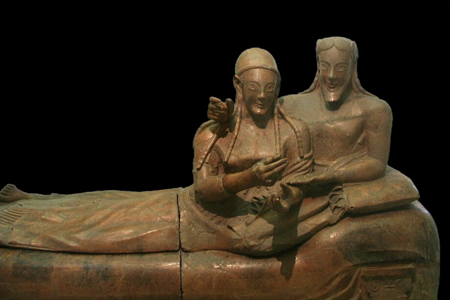 Sarcophagus of the Spouses, sixth century BC; National Etruscan Museum, Villa Giulia, Rome.